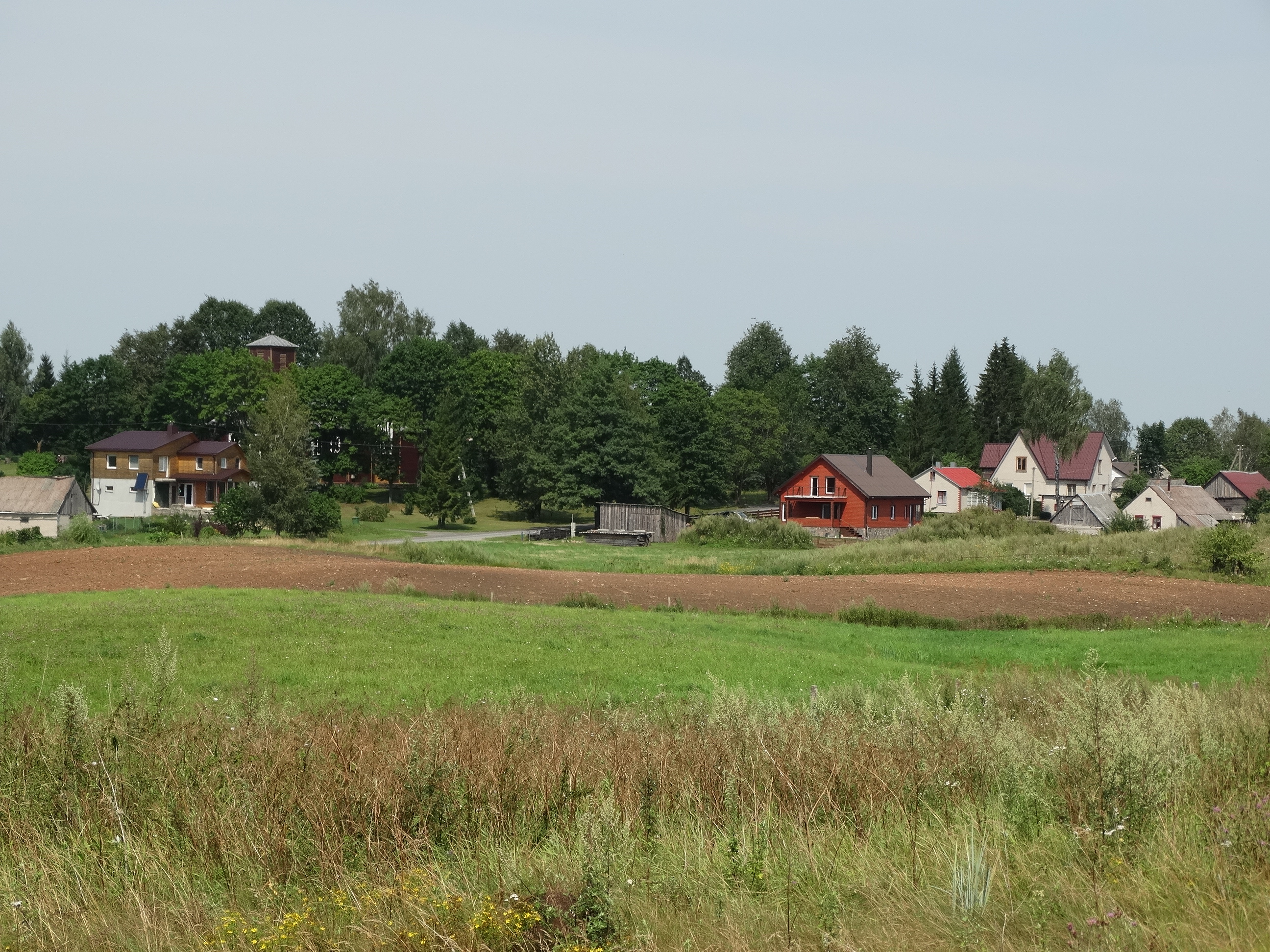 Biliakiemis, Utena District, Lithuania